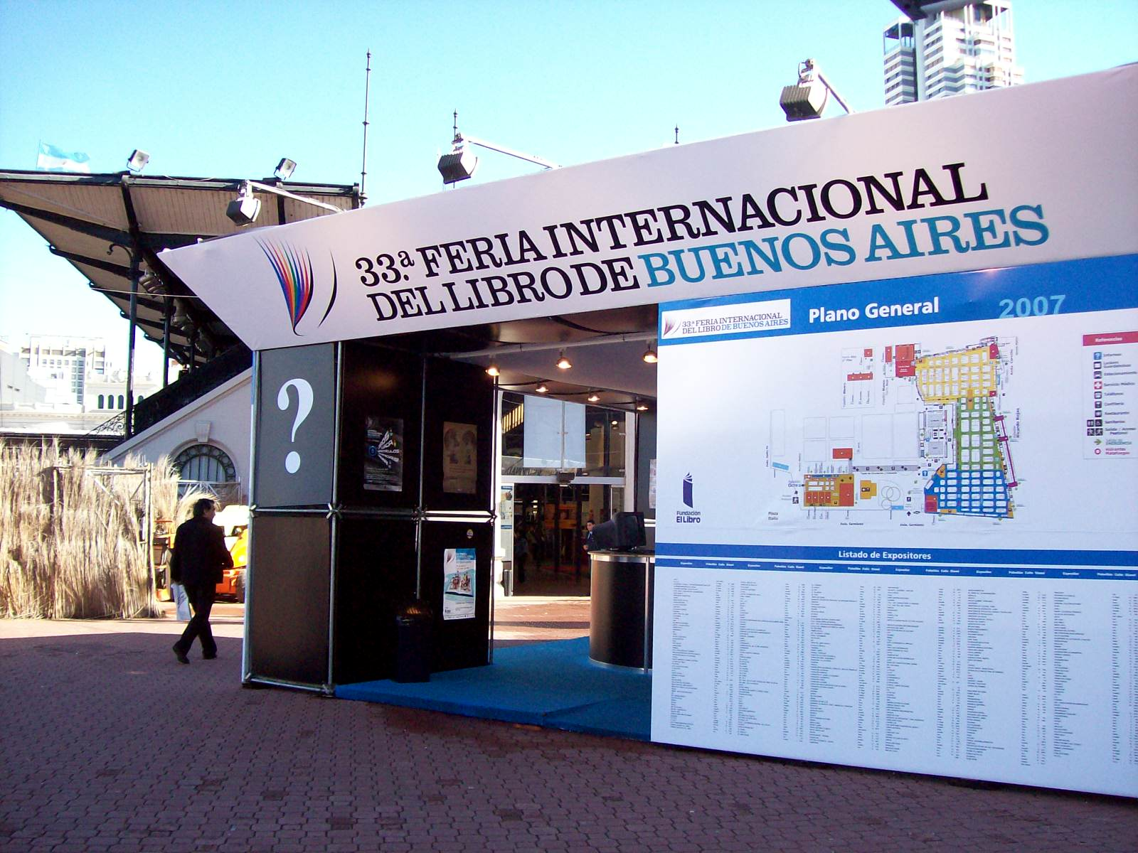 Buenos Aires International Book Fair, main information booth